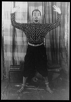 Title: Portrait of Zachary Scott, in The King & I Abstract/medium: 1 photographic print : gelatin silver.